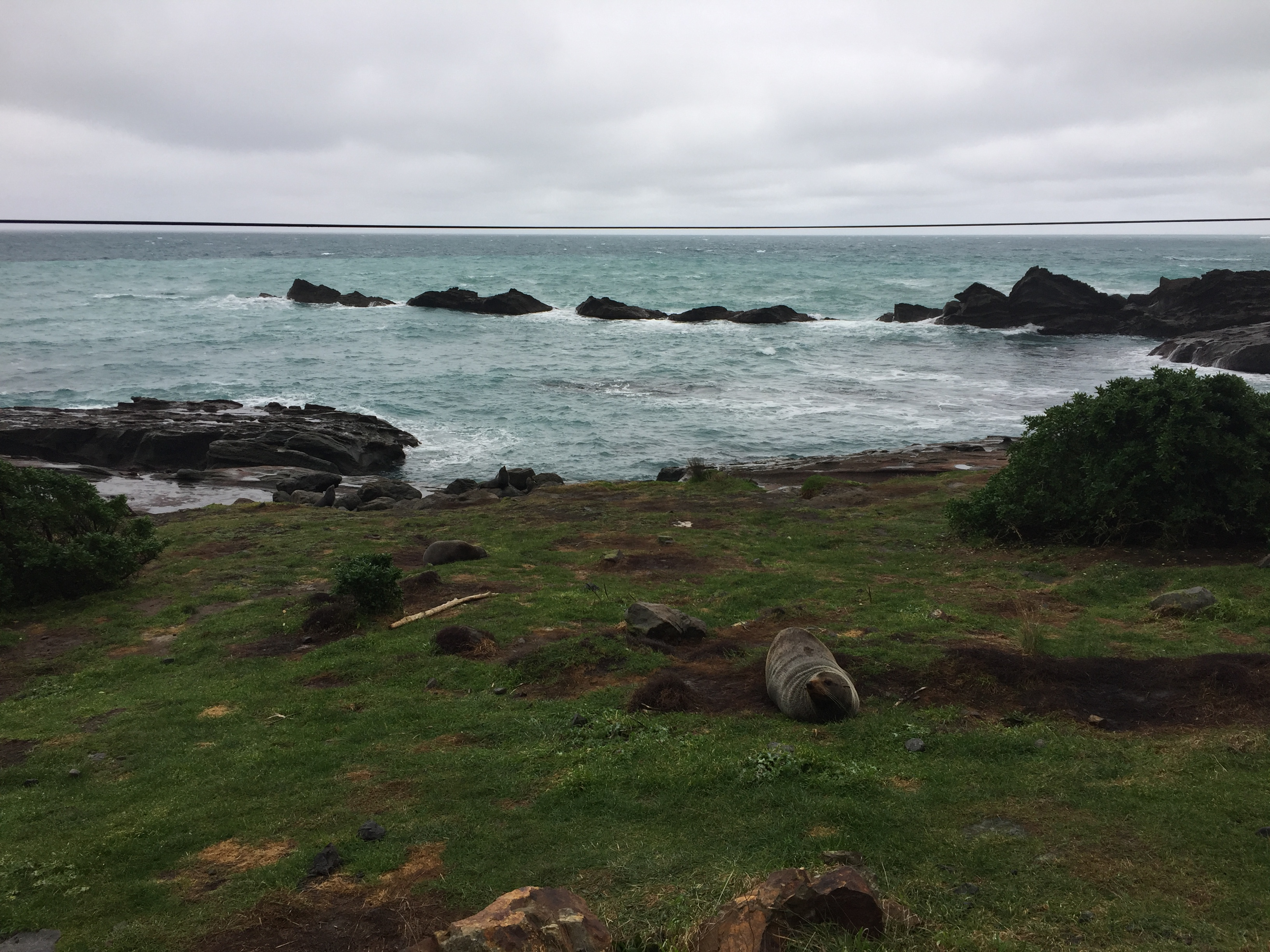 Seal looking towards Palliser Bay